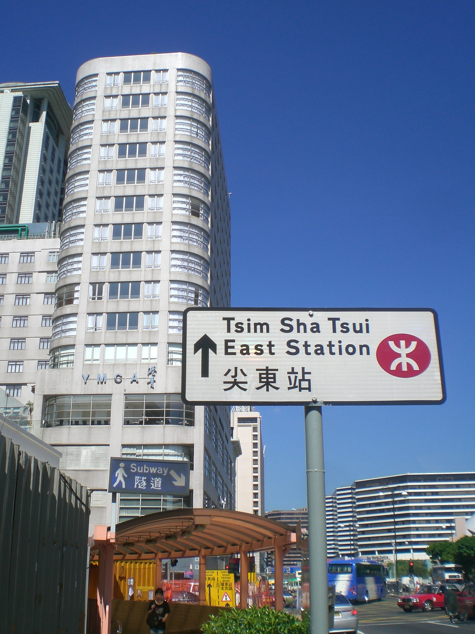 香港基督教青年會賓館